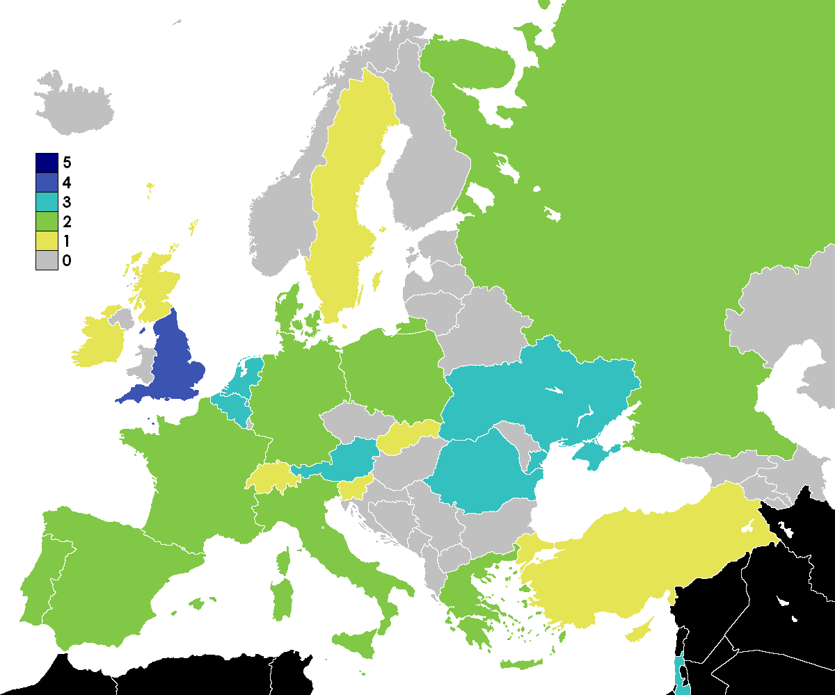 Number of allocated teams per country in 2011–12 UEFA Europa League.